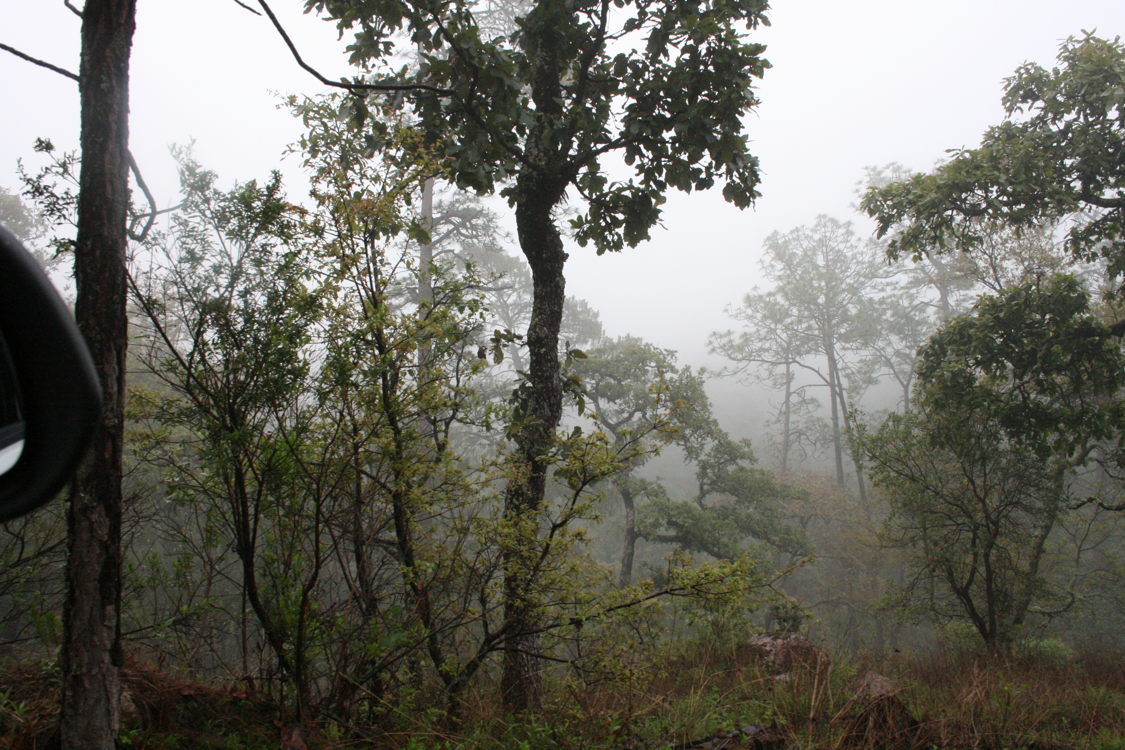 Foggy forest